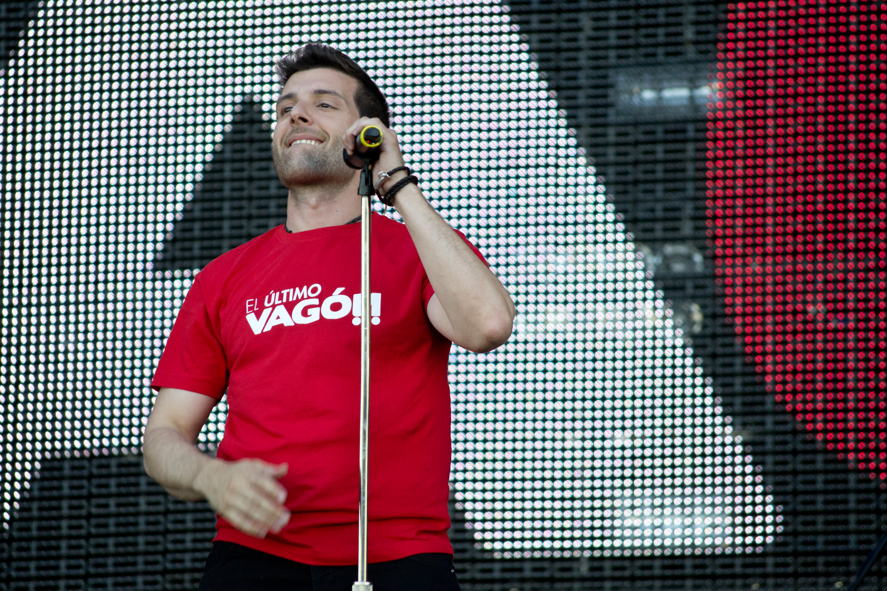 Spanish pop rock group El último vagón playing live at Rock in Rio Madrid 2012.